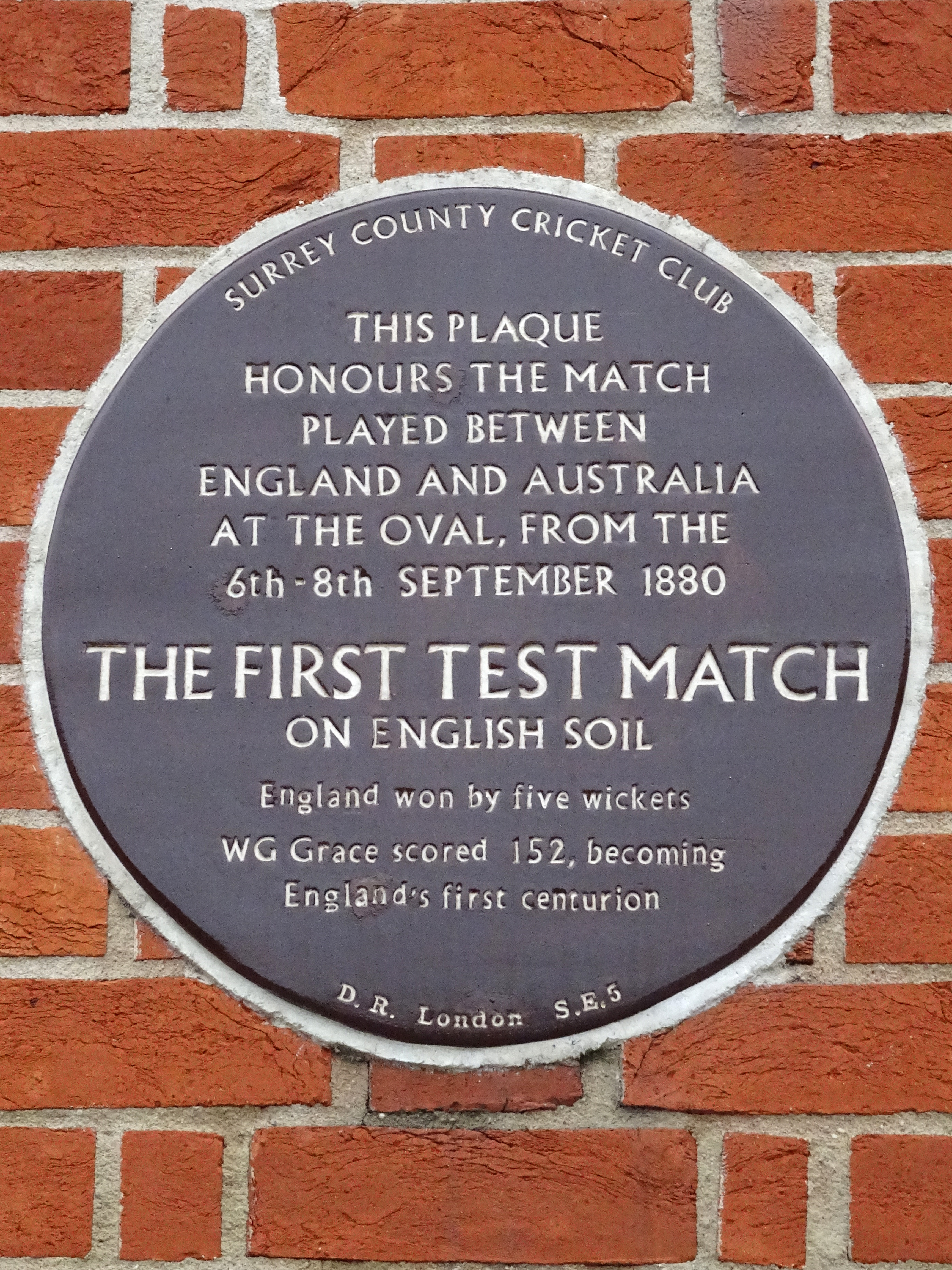 The First Test Match plaque - The Oval, Kennington Oval, London SE11 5TB